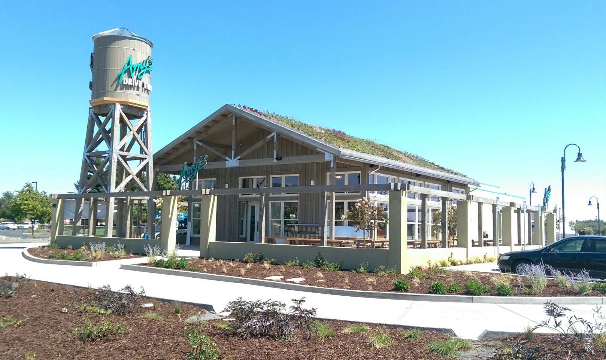 The Amy's Drive Thru restaurant in Rohnert Park, California, scheduled to open in July, 2015.